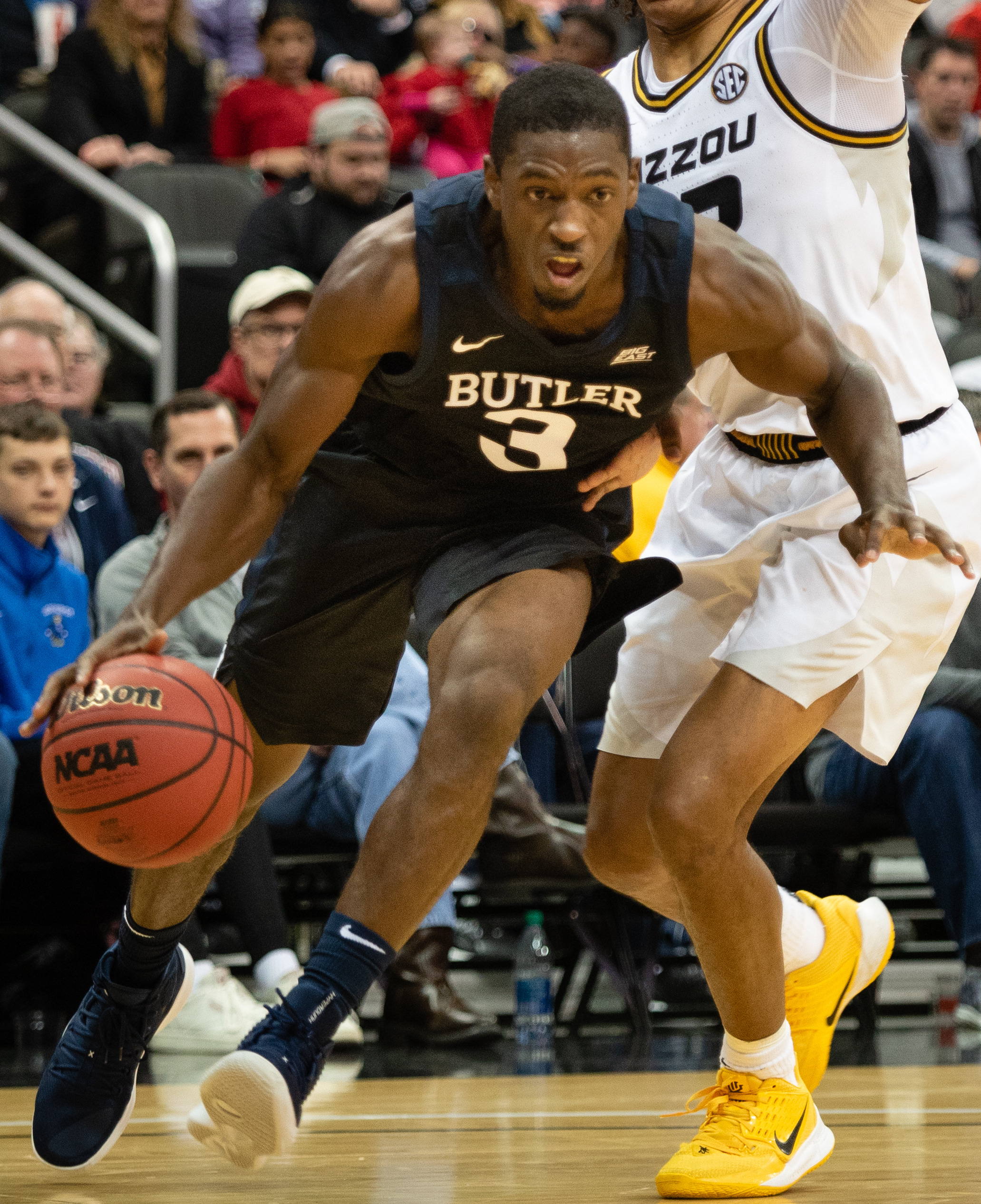 Kamar Baldwin Dru Smith